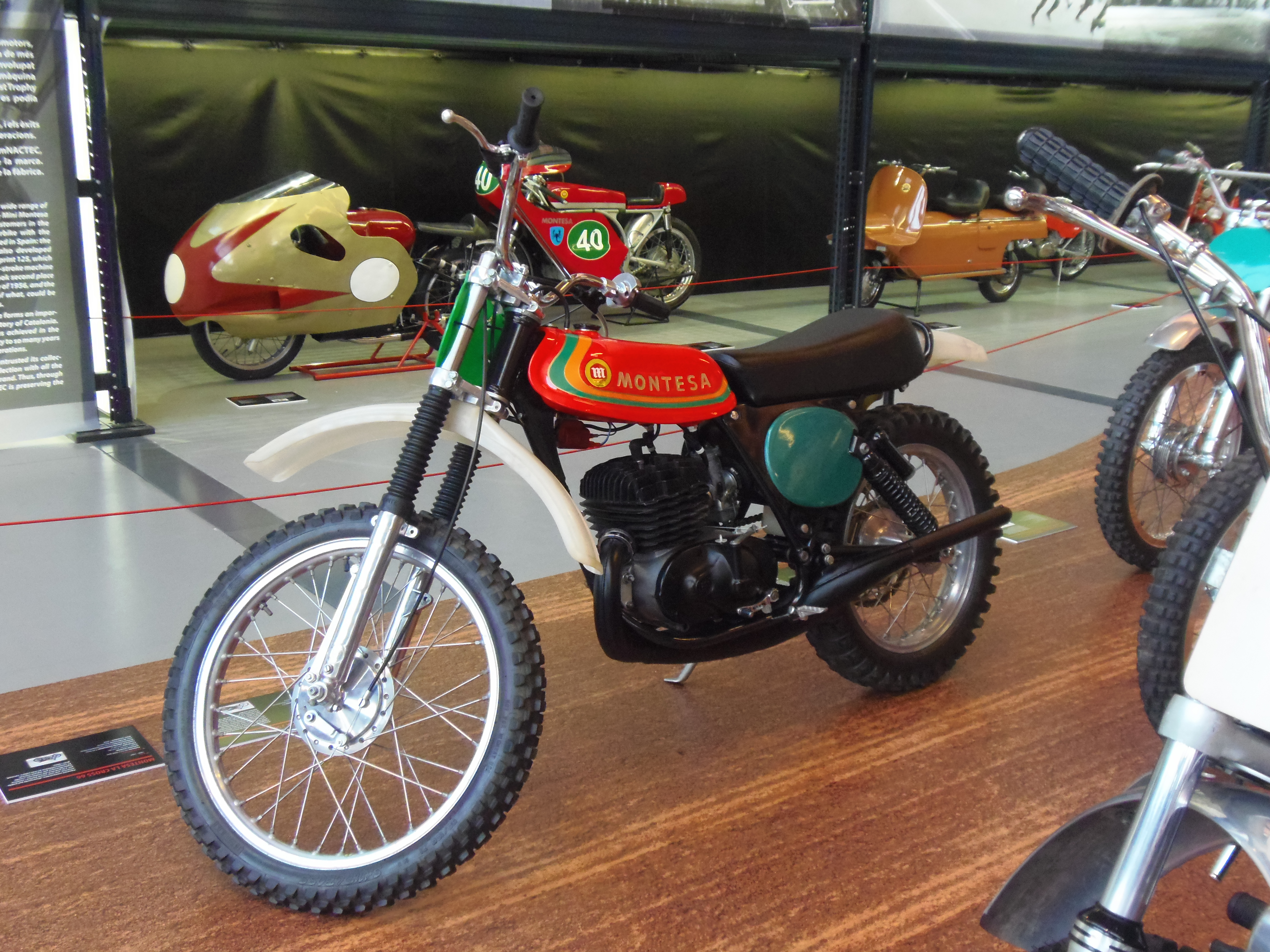 Montesa Cappra VA 250, 1975